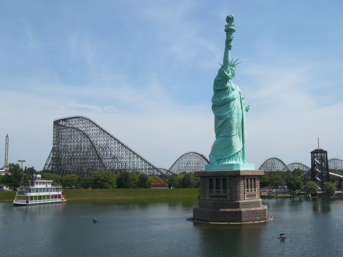 rollercoaster "Colossos" at themepark Heide-Park Soltau/Germany